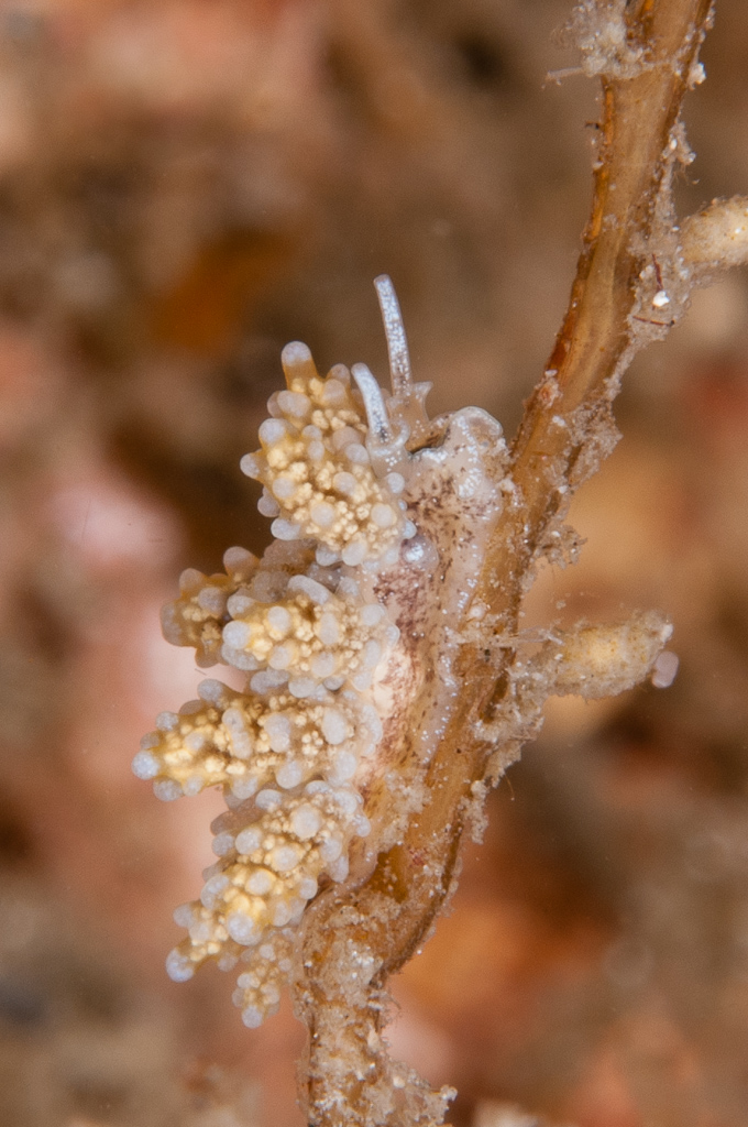 D. varaderoensis on hydroids